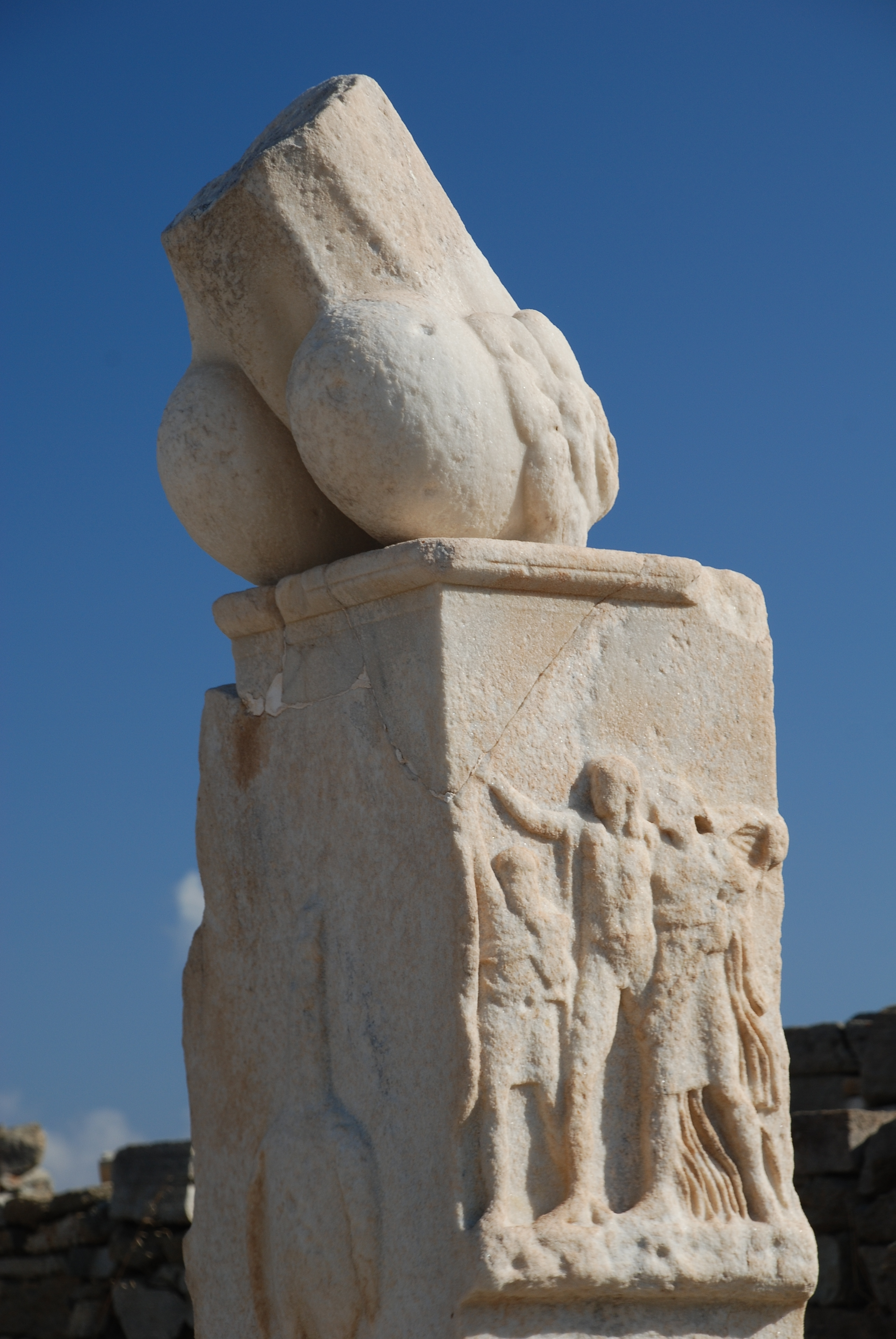 Southern_Pillar_-_Stoivadeion_-_Temple_of_Dionysus_-_Delos_Greece_Oct_2008